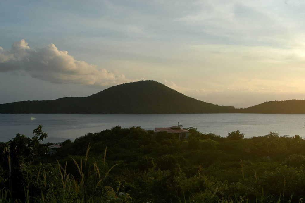 Photo of Cayo Luis Peña.